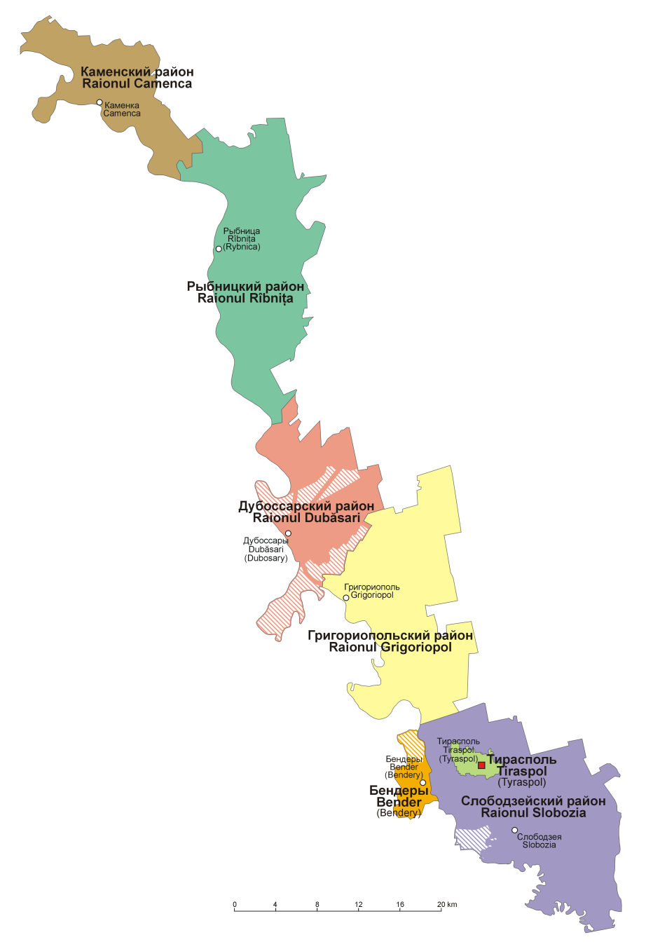 Administrative divisions of Pridnestrovie